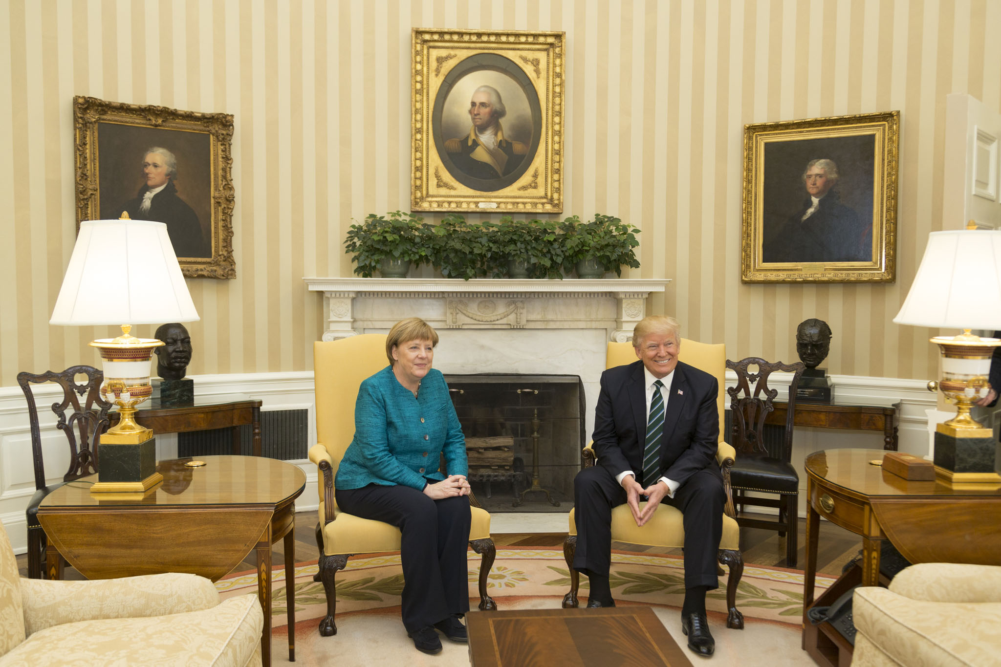 President Donald Trump meets with German Chancellor Angela Merkel, Friday, March 17, 2017, in the Oval Office of the White House in Washington, D.C. (Official White House Photo by Shealah Craighead)